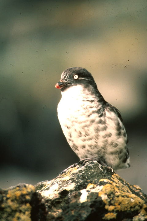 Least Auklet (Aethia pusilla)